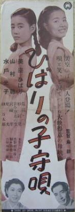 1951 movie poster for 1951 Japanese movie (ひばりの子守唄 Hibari no komoriuta, lit. "Hibari's Lullaby".